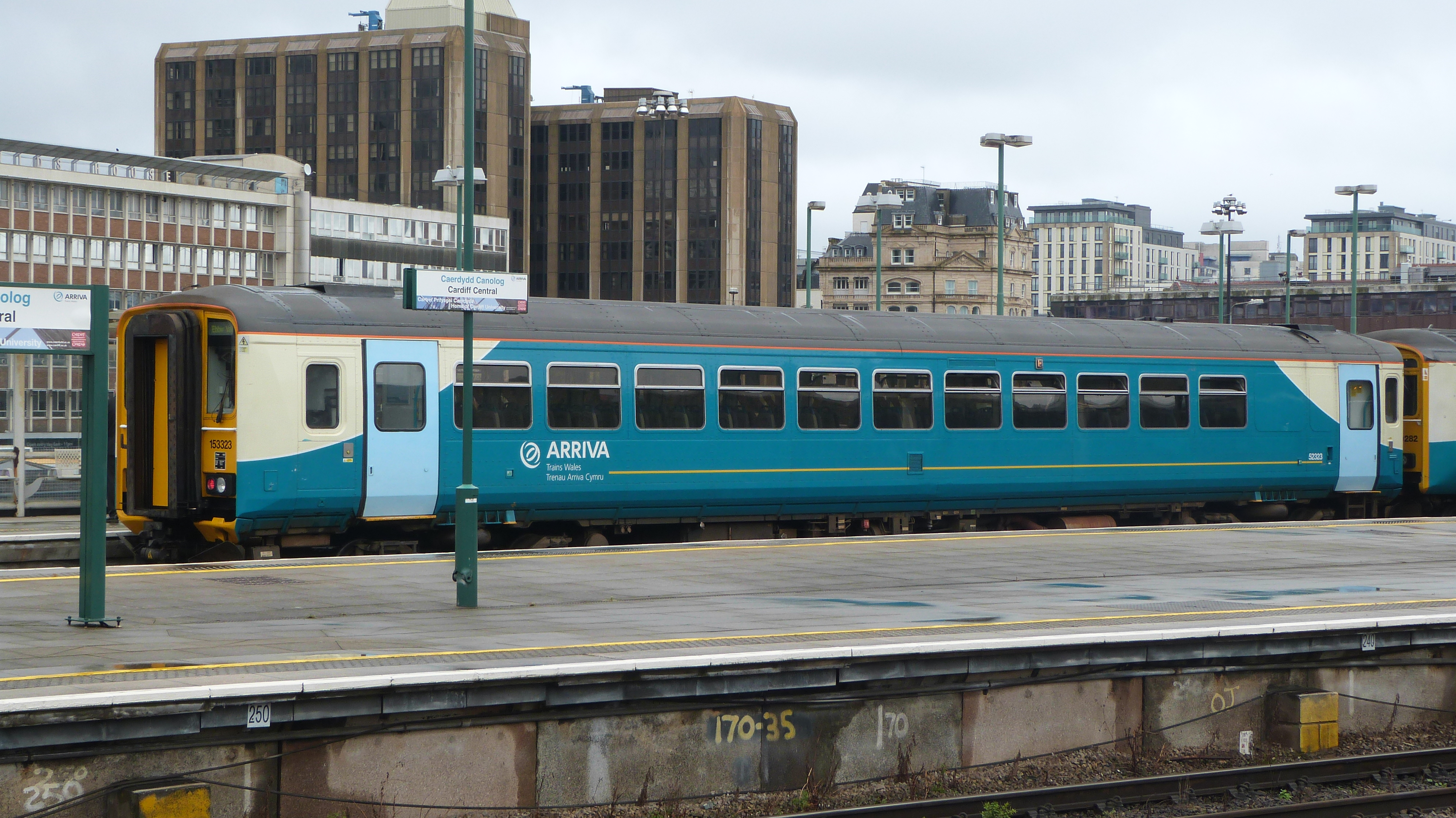 Arriva Trains Class 153 No 153321